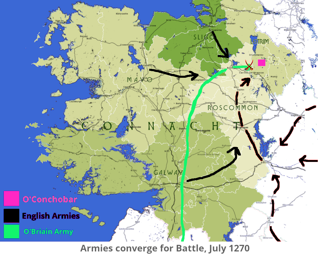 Armies gather in Moynissy for the Battle of Áth an Chip in 1270